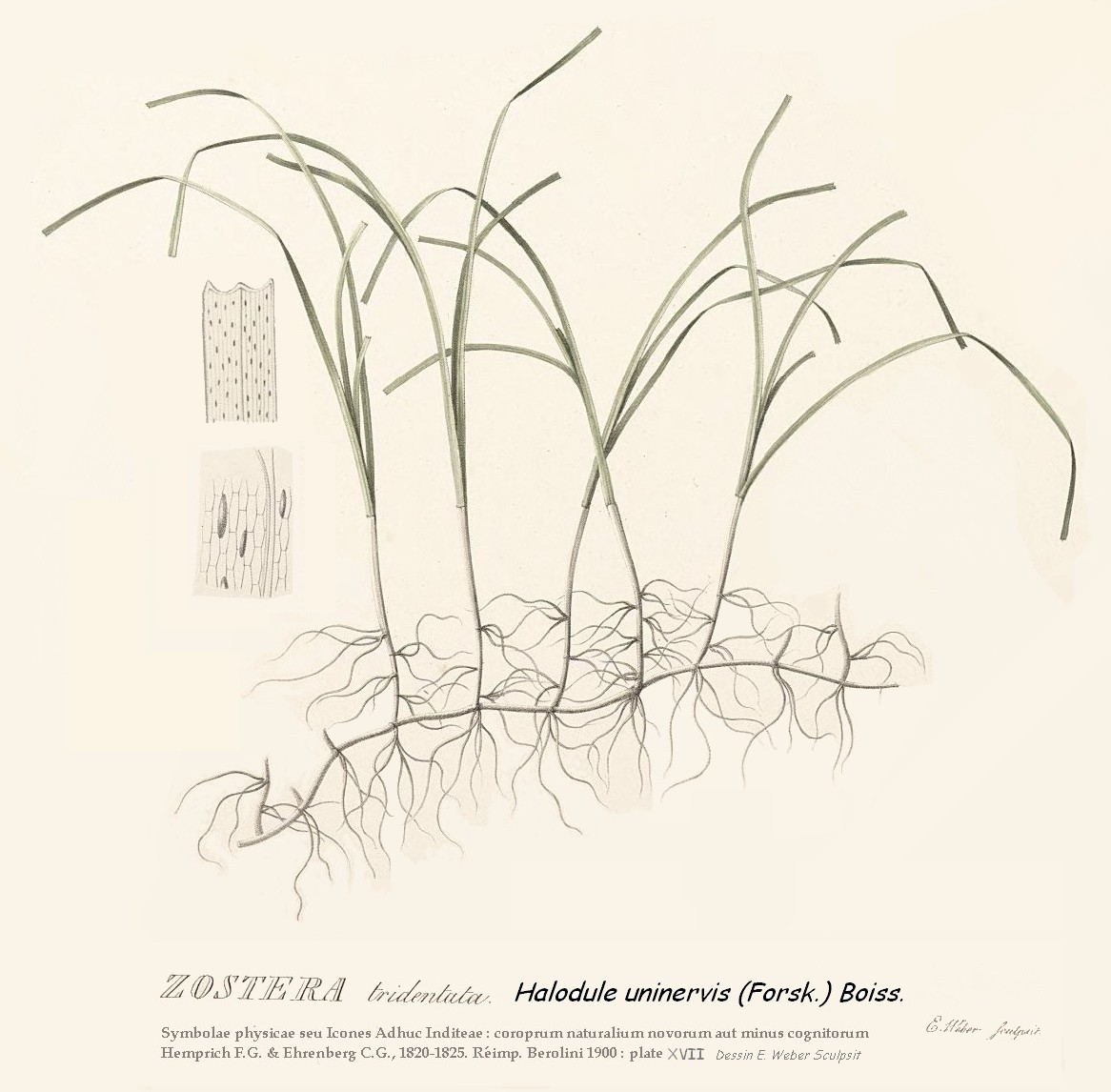 Halodule uninervis